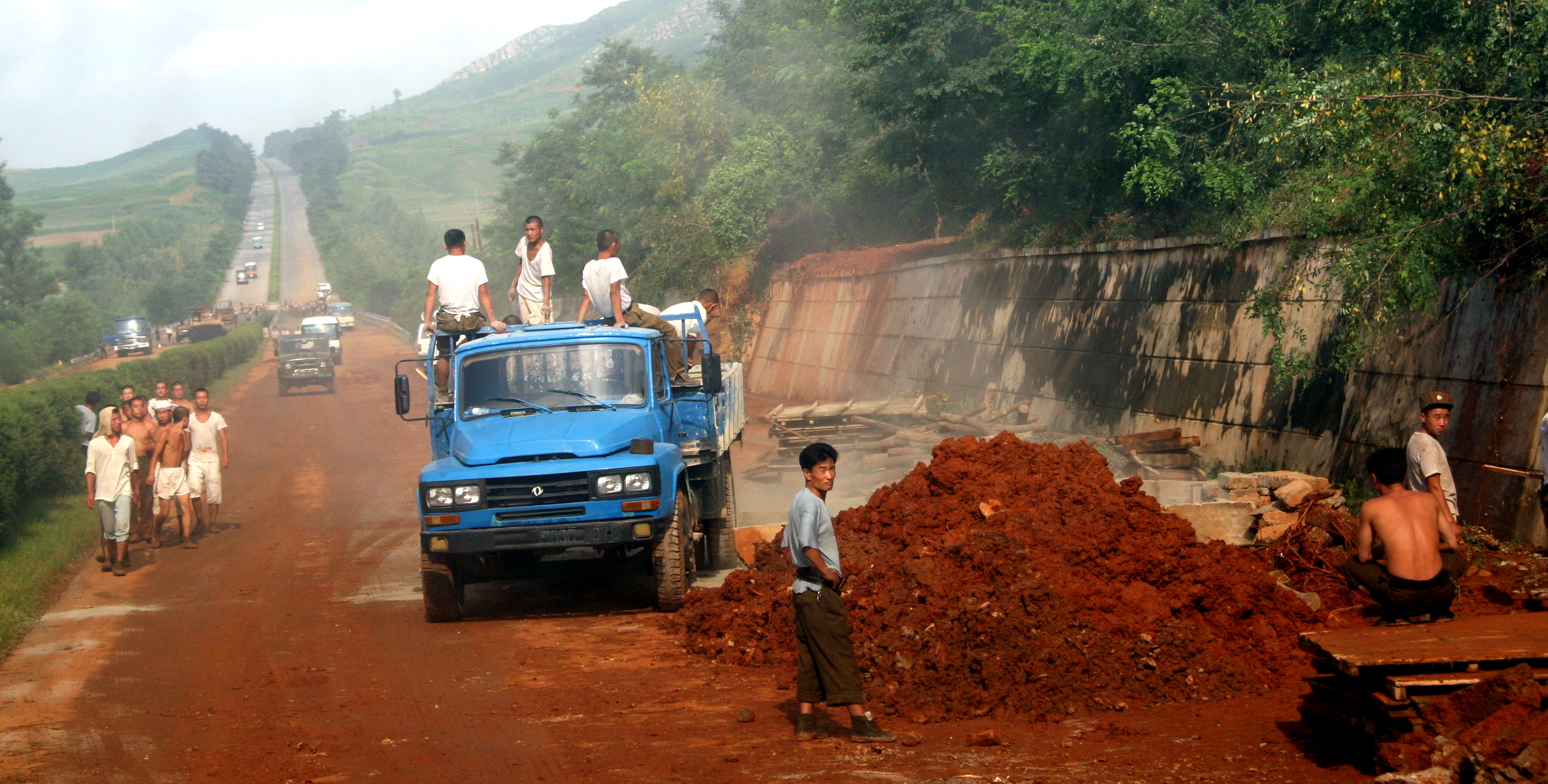 Roadworks in North Korea. The blue truck in the foreground is a Chinese-made Dongfeng.